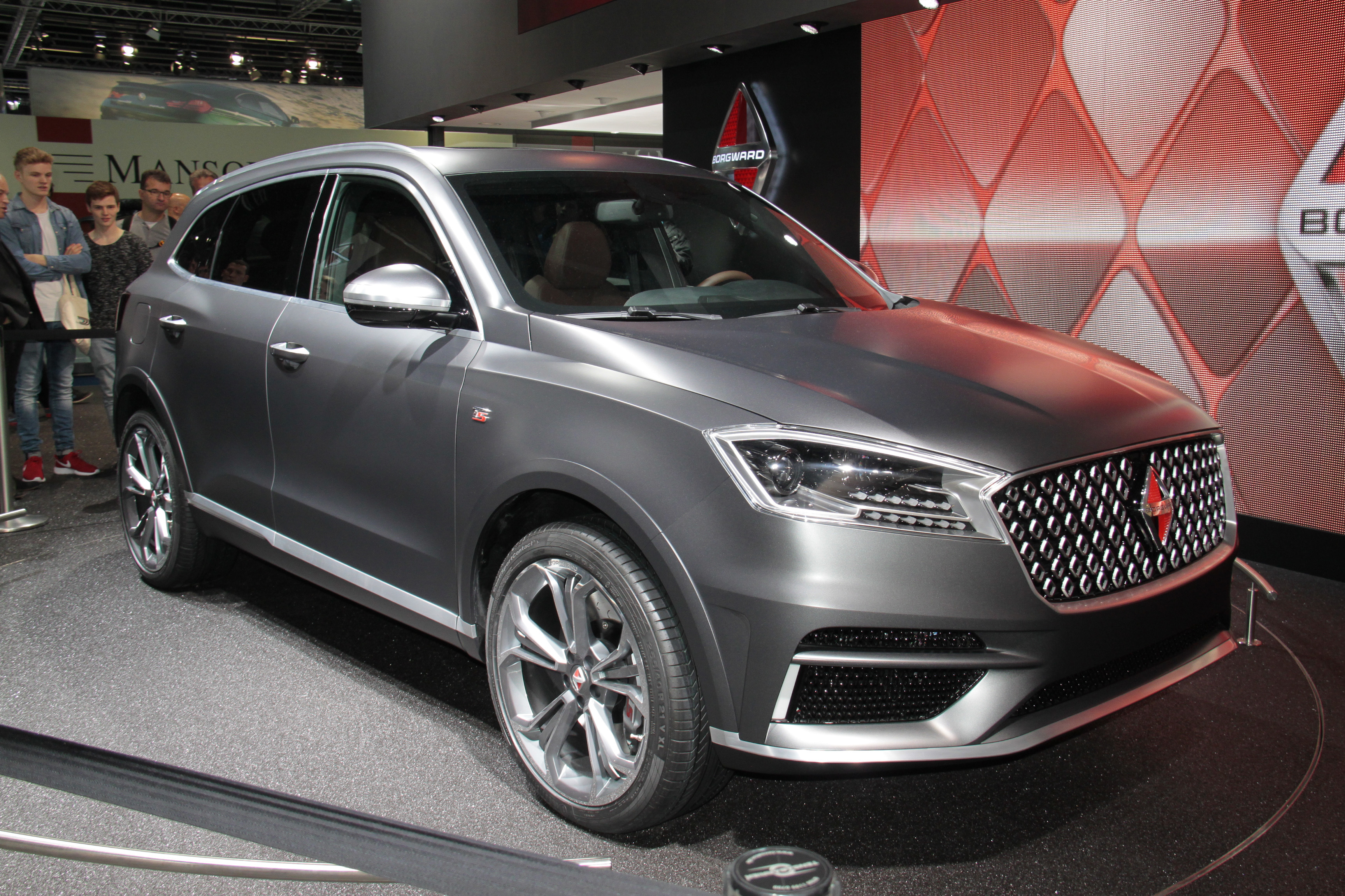 Borgward BX7 TS at IAA 2015